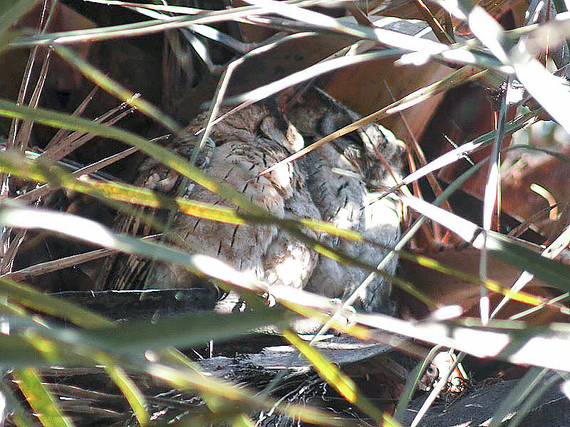 Indian Scops-owl (Otus bakkamoena) at Bharatpur, Rajasthan, India.